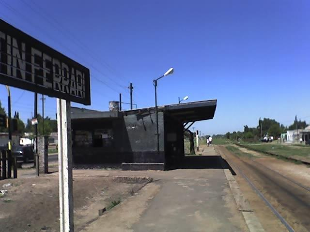 Agustín Ferrari railway station; Merlo Partido, Agustín Ferrari railway station, Merlo Partido, Buenos Aires Province, Argentina.